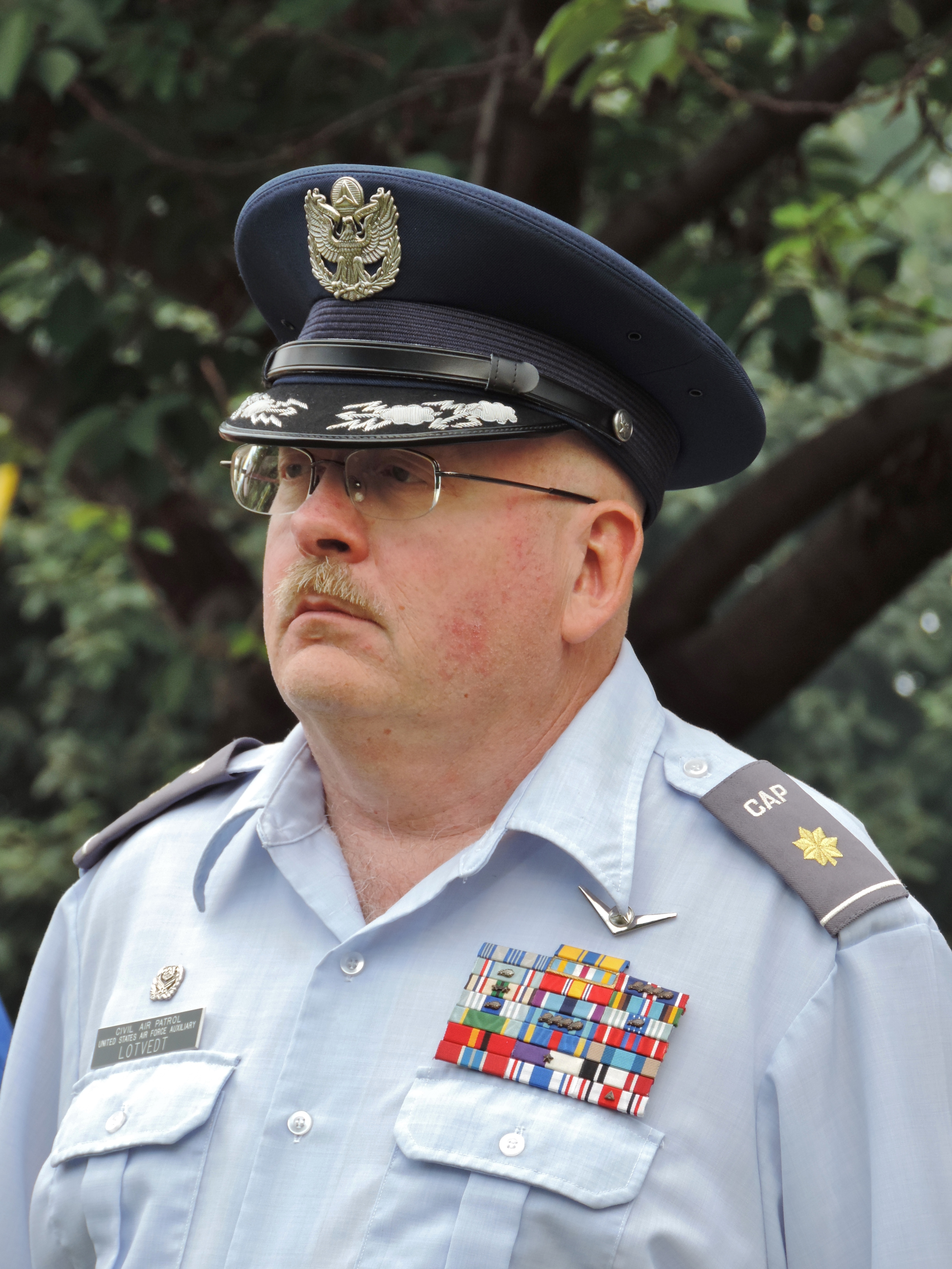 CAP officer at Maryland's 2013 Dundalk Heritage Fair